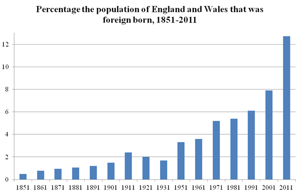 UK foreign-born population over time